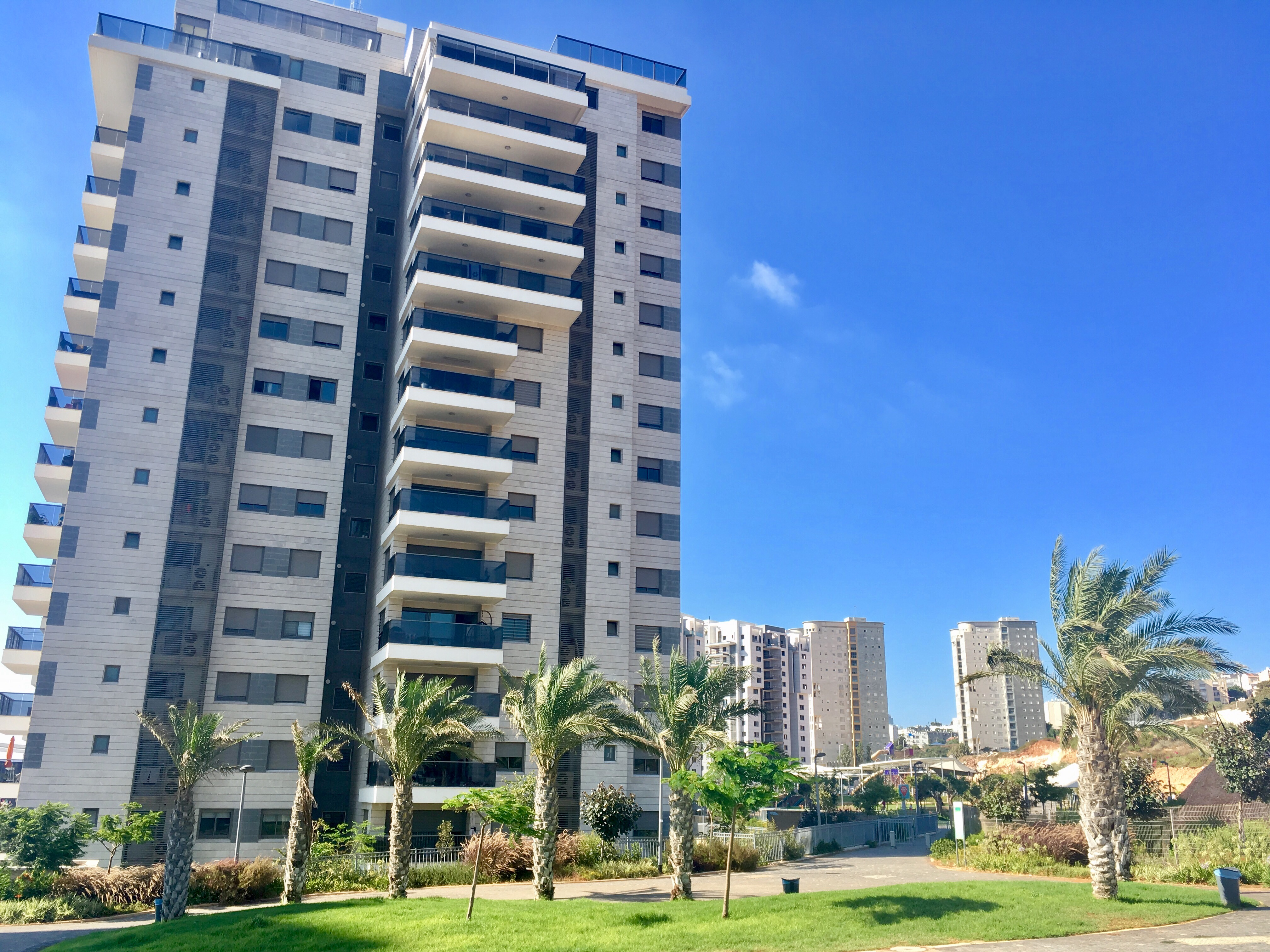 אלמוג 16 והכניסה לפארק הפרפר